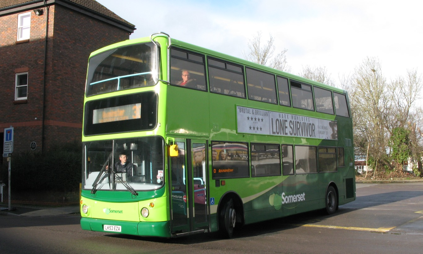 First Somerset and Avon rebranded their buses in the Taunton and Bridgwater areas as 'Buses of Somerset' on 26 January 2014. 33381, a Trident registered LK53EZA, leaves Taunton Bus Station for Axminster in its smart new green livery a few days later.